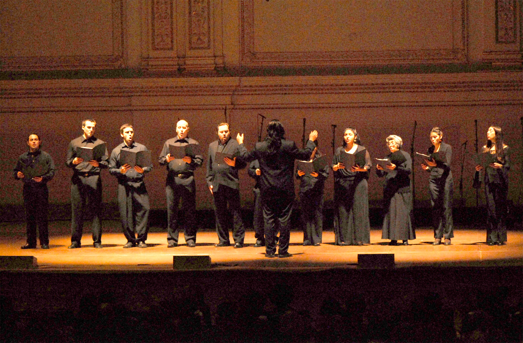 Ernesto Villalobos conducting the premiere of "Anochipa Tlalticpac" an original composition by Alberto Villalobos with Nahuatl language lyrics for chorus, jaranas and pre-Columbian drums at Carnegie Hall's Isaac Stern Auditorium